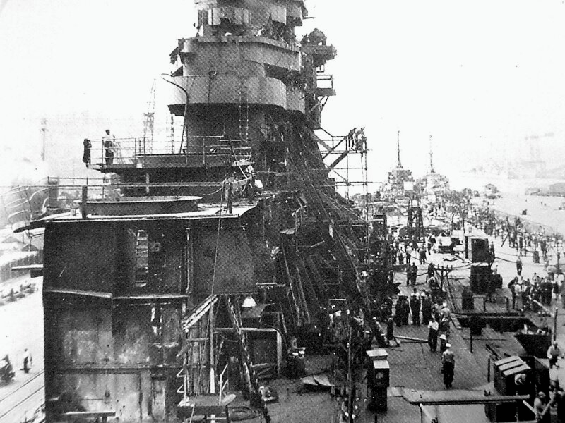 The U.S. Navy aircraft carrier USS Franklin (CV-13) under repair in a drydock at the New York Naval Shipyard (USA), in 1945. The entire flight deck and supporting upper hull was removed and rebuilt because of the extensive damage caused by two Japanese bombs that penetrated the flight deck on 19 March 1945, exploding on the hangar deck, igniting fuel and ordinance from the aircraft below decks. The circular rings to the left are the two forward 127 mm gun mount supports with the island superstructure behind them. The lower ring would be the flight deck level.